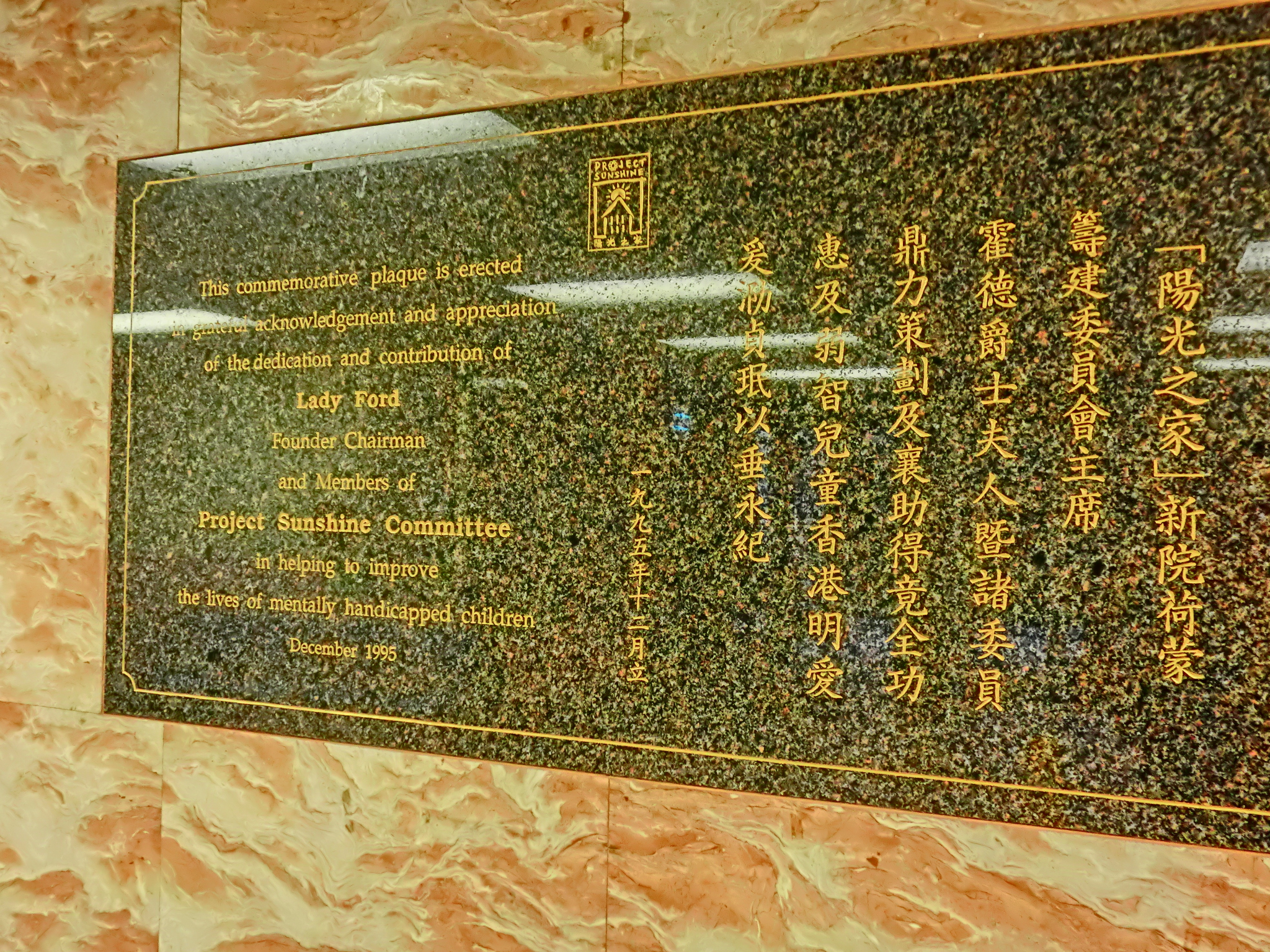 長沙灣 明愛醫院, Caritas Medical Centre, Cheung Sha Wan, Hong Kong